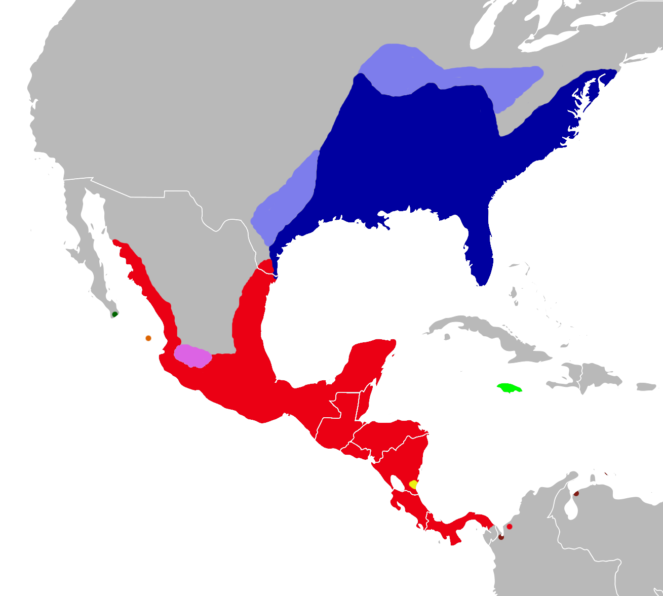 Distribution of the genus Oryzomys in southern North and northern South America. Blue: Oryzomys palustris light blue, former range of Oryzomys palustris (approximate) red: Oryzomys couesi pink: Oryzomys albiventer orange: Oryzomys nelsoni dark green: Oryzomys peninsulae light green: Oryzomys antillarum yellow: Oryzomys dimidiatus brown: Oryzomys gorgasi